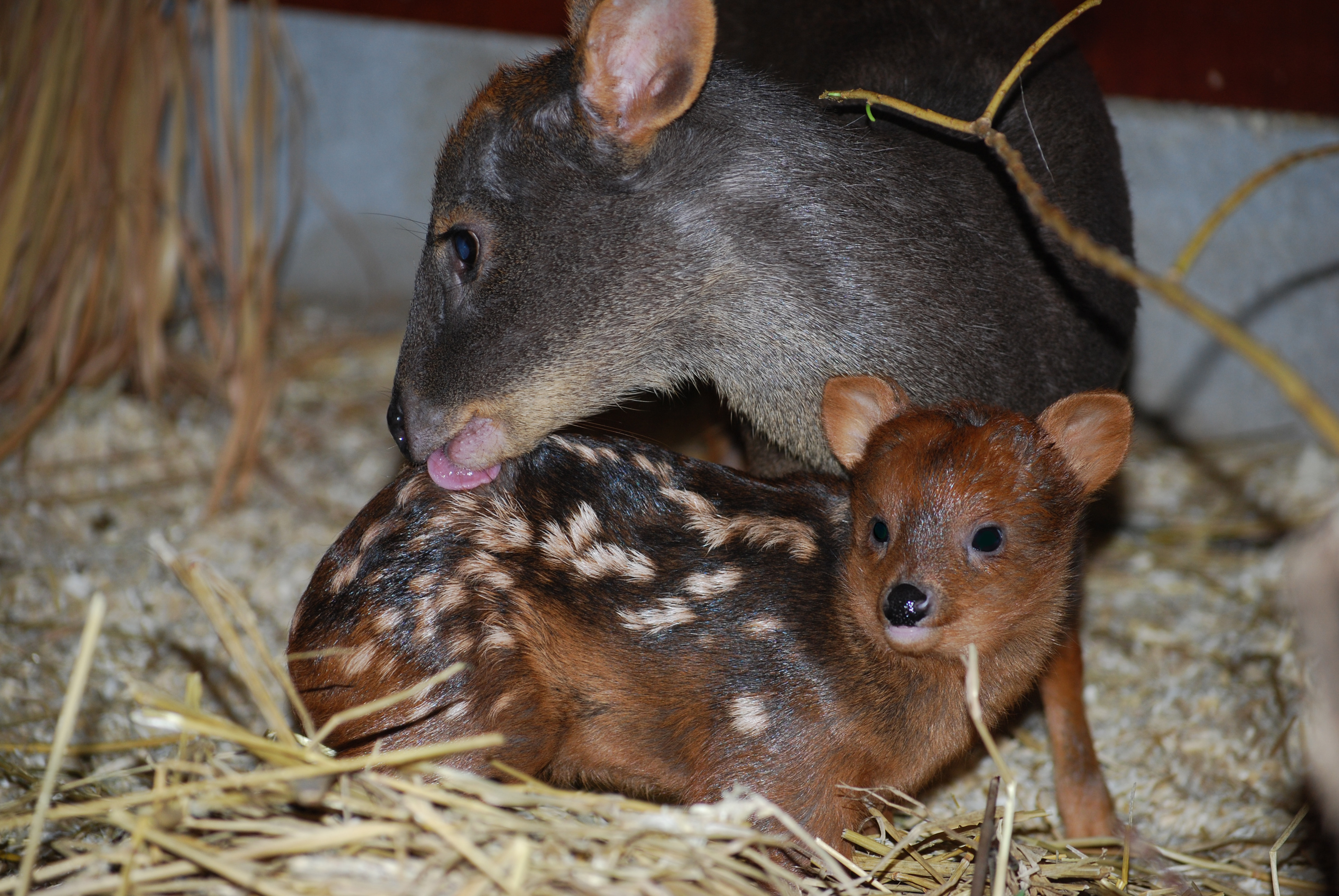 Pudu puda, mother with its young, a female born 25 may 2013, in Parken Zoo, Sweden.